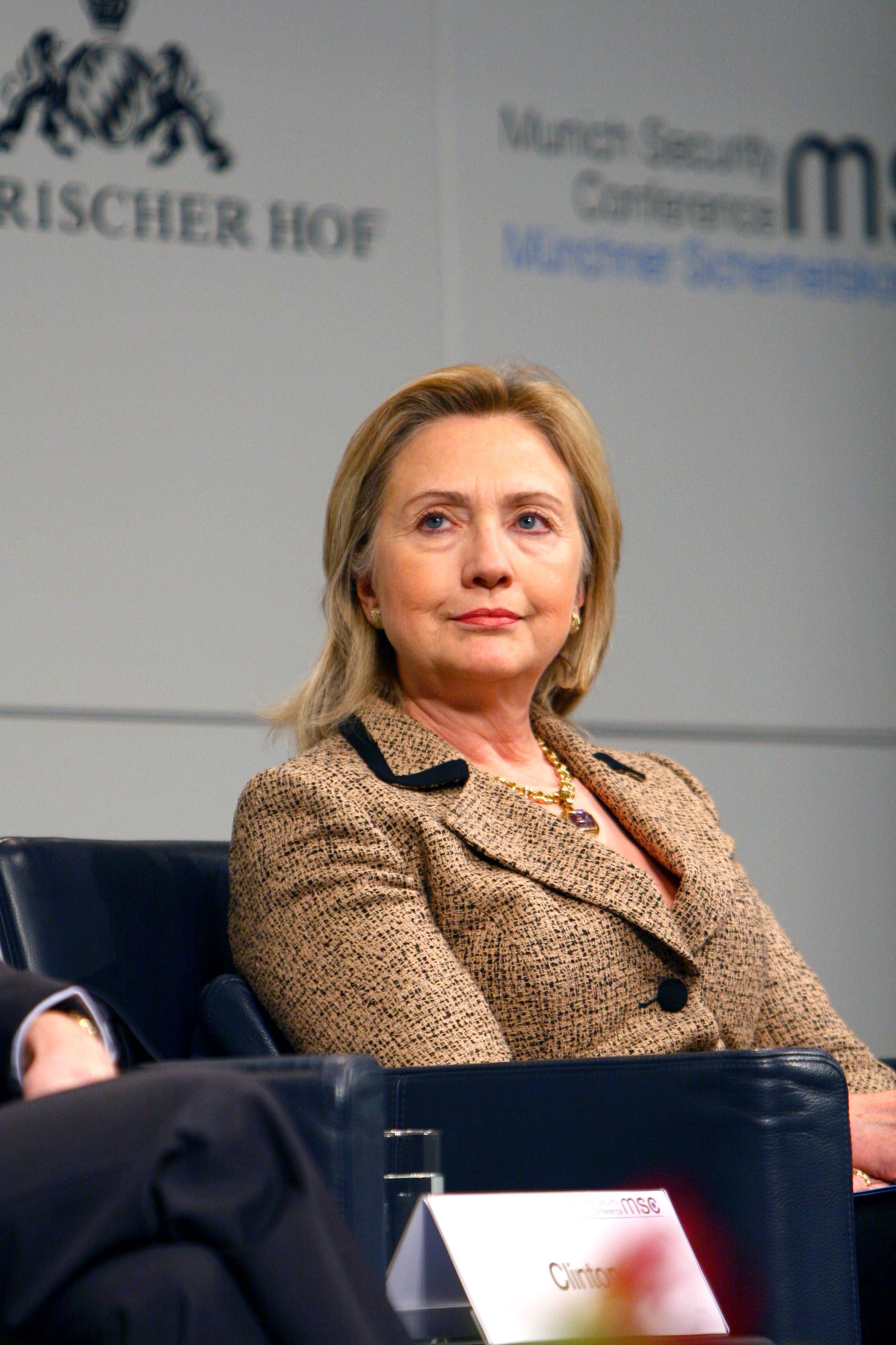 47th Munich Security Conference 2011: Hillary Clinton, Secretary of State, USA.